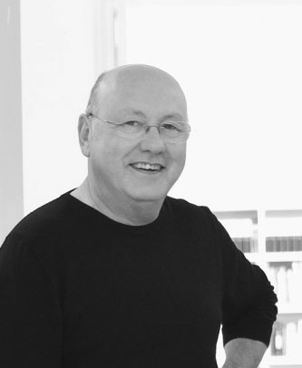 A black-and-white portait of Nacho Lavernia Company, taken in his studio in April 2012.